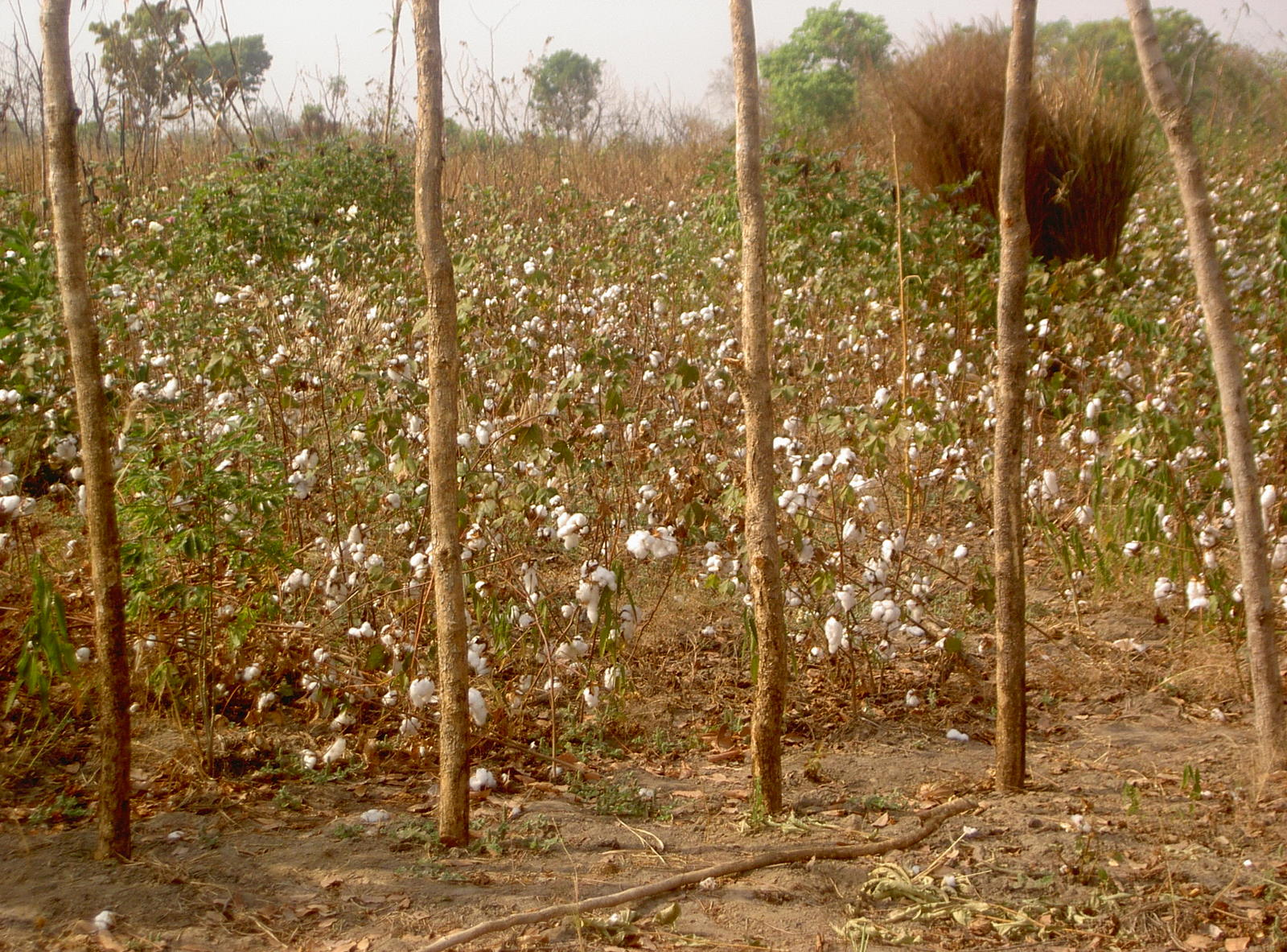 Cotton production in CAR. The humanitarian crisis striking CAR has put the 74 percent of the population working in the Agricultural sector in great difficulty. The FAO missionin CAR is supporting the efforts of the population in the North of the country.